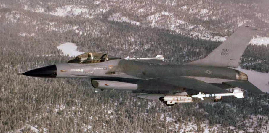 The first producet F-16 plus an AN/ALQ-119 Pod